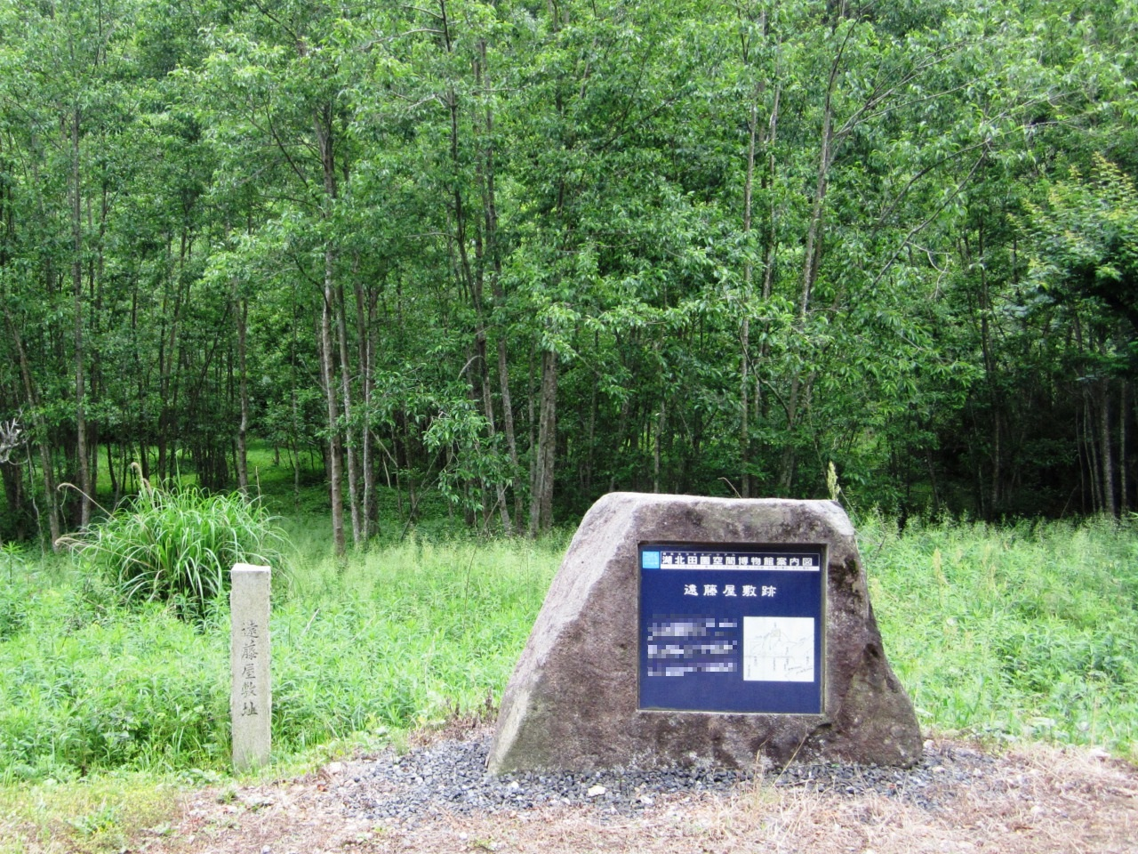 The site of Endō Naotsune's residence in Nagahama, Shiga.